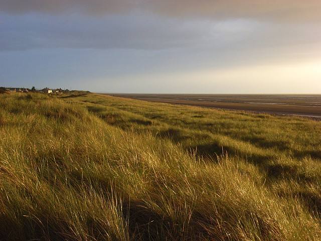 Wolsty Bank These grassy dunes are a nature reserve. A few houses in Beckfoot are visible beyond.